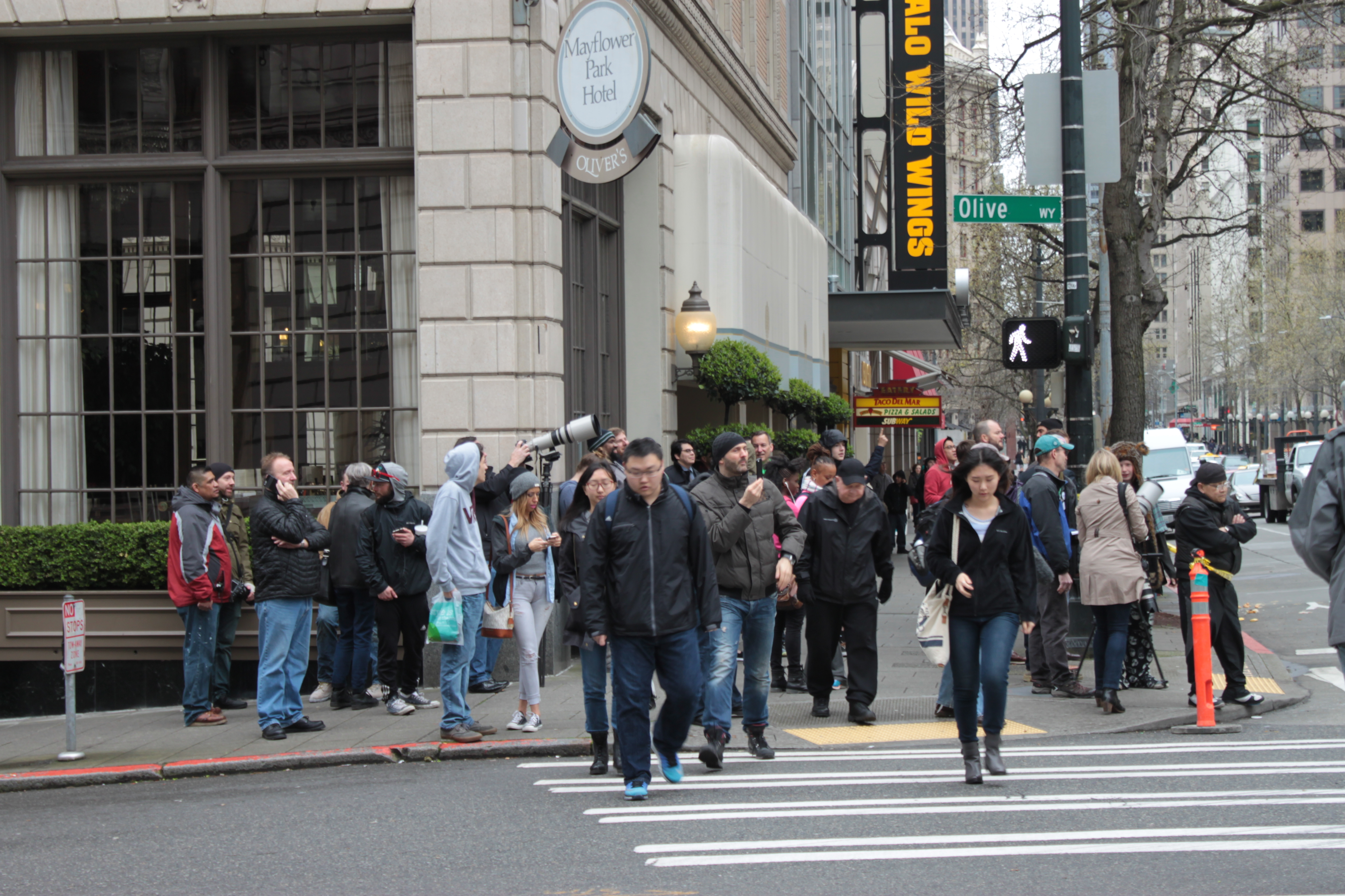 Observers on 4th Avenue looking towards the Man in Tree incident, which took place on March 22/23, 2016.